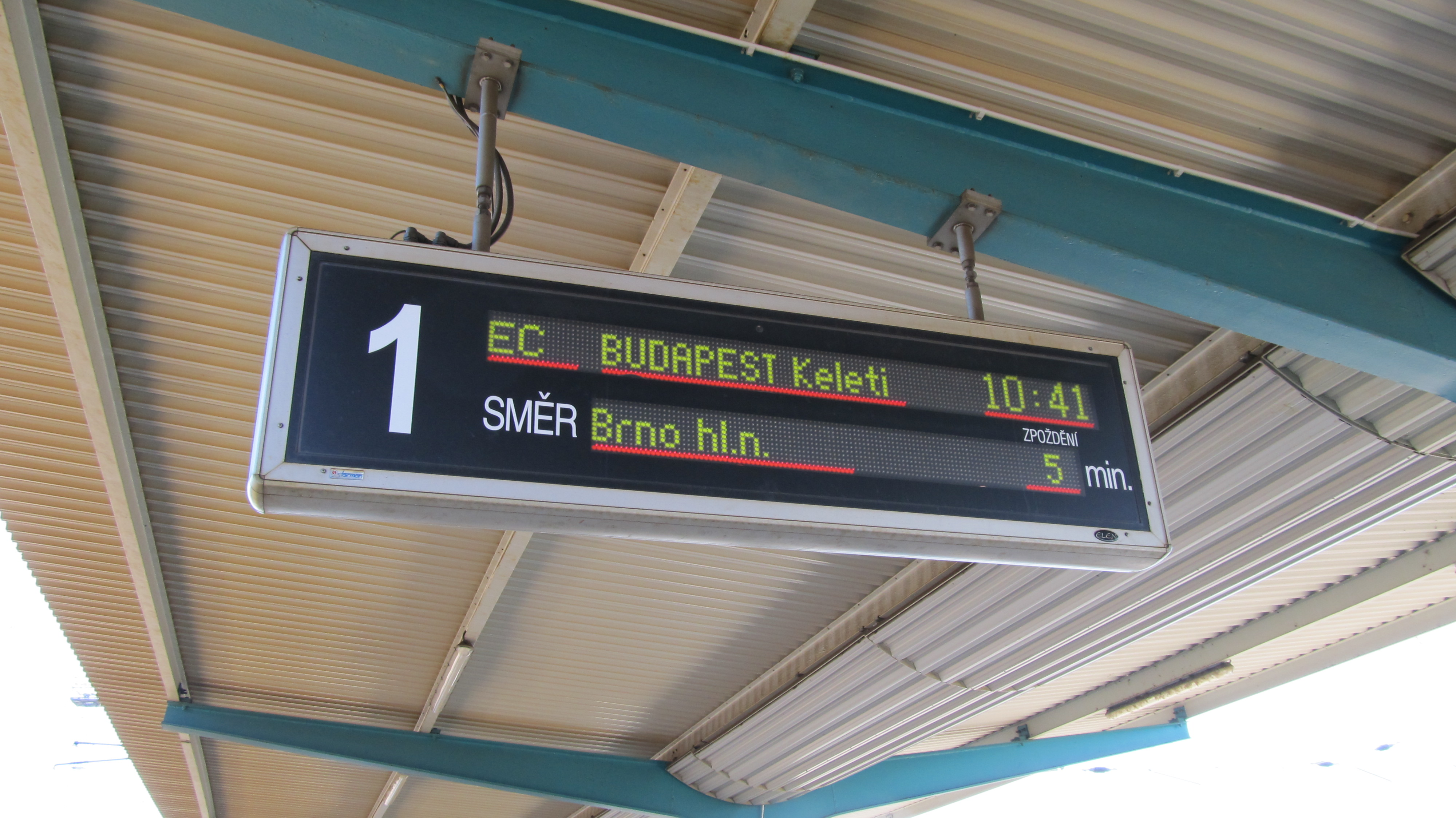 Information board at the main railway station in Pardubice information about departure time EuroCity train 275 Slovan in the direction Brno main station